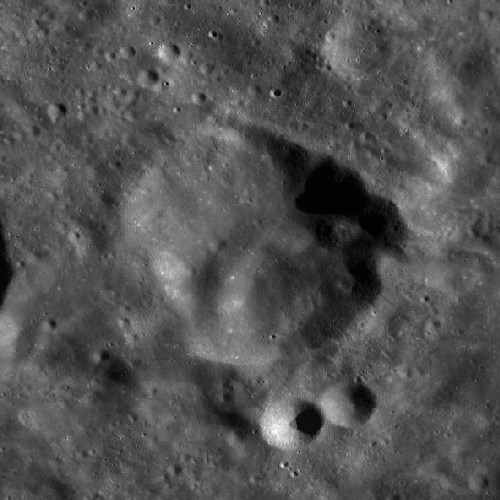 Konoplev crater, on the far side of the moon. Mosaic of LRO WAC images.